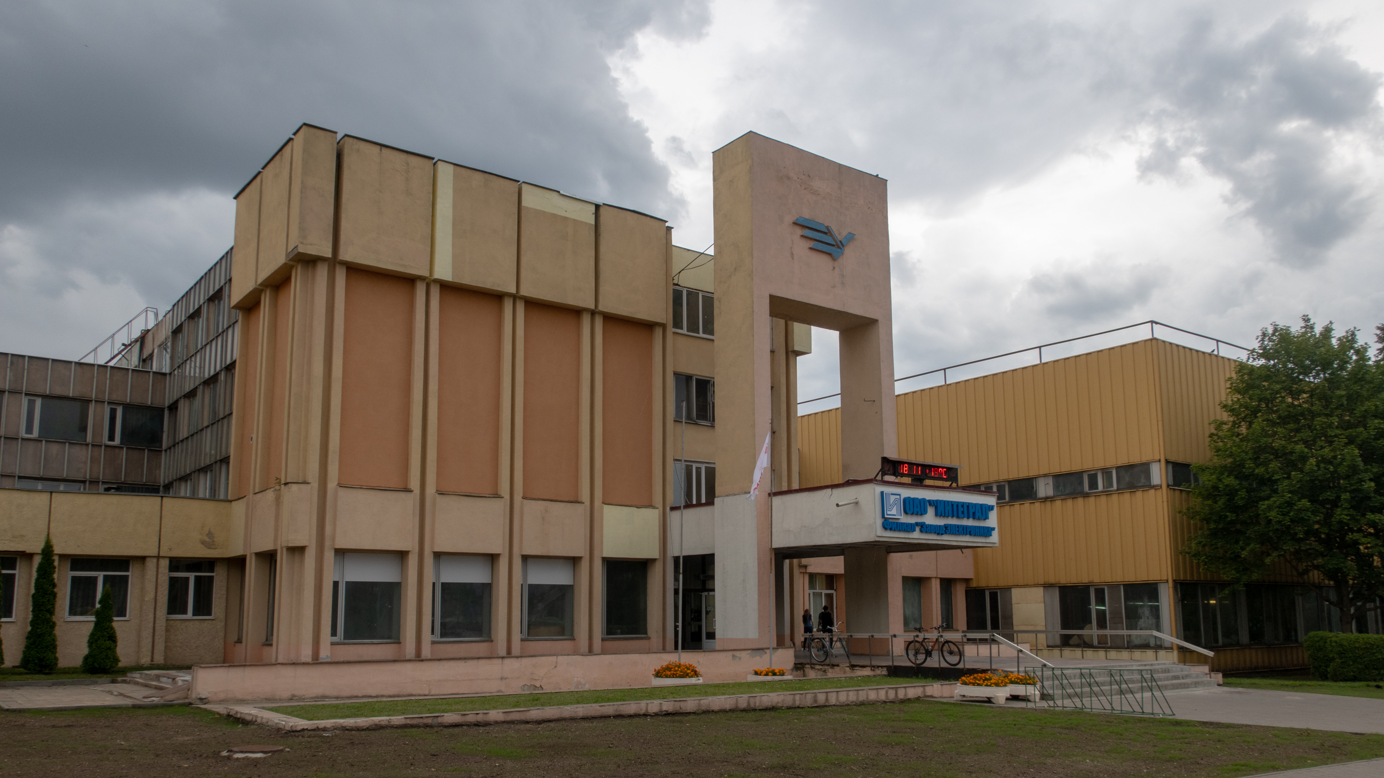 "Integral" company (Minsk, Belarus)